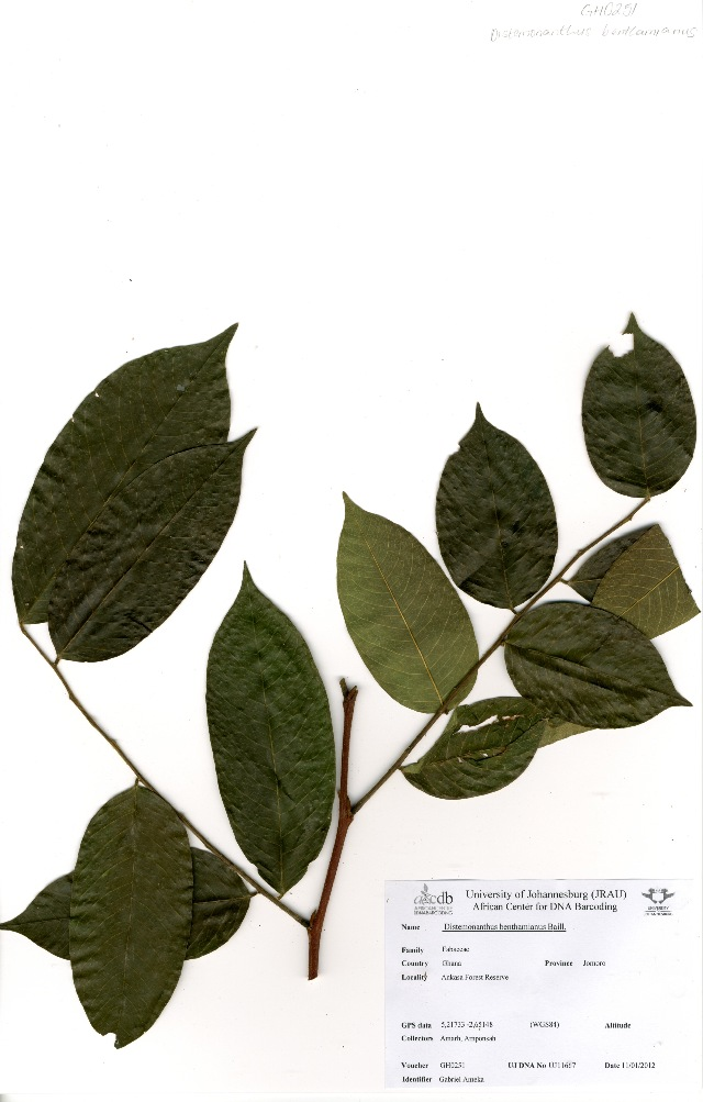 Specimen of movingui collected in Ghana.